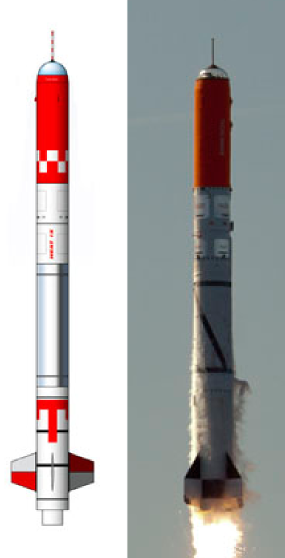 HEATX1 Tycho Brahe Launce photo and concept drawing